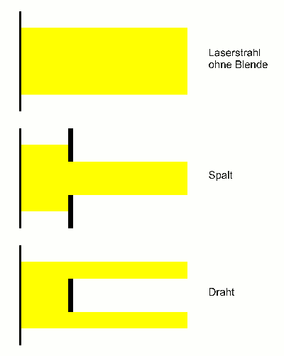 Light propagation without diffraction: without any diffracting body, with a slit and with a wire as complement of the slit